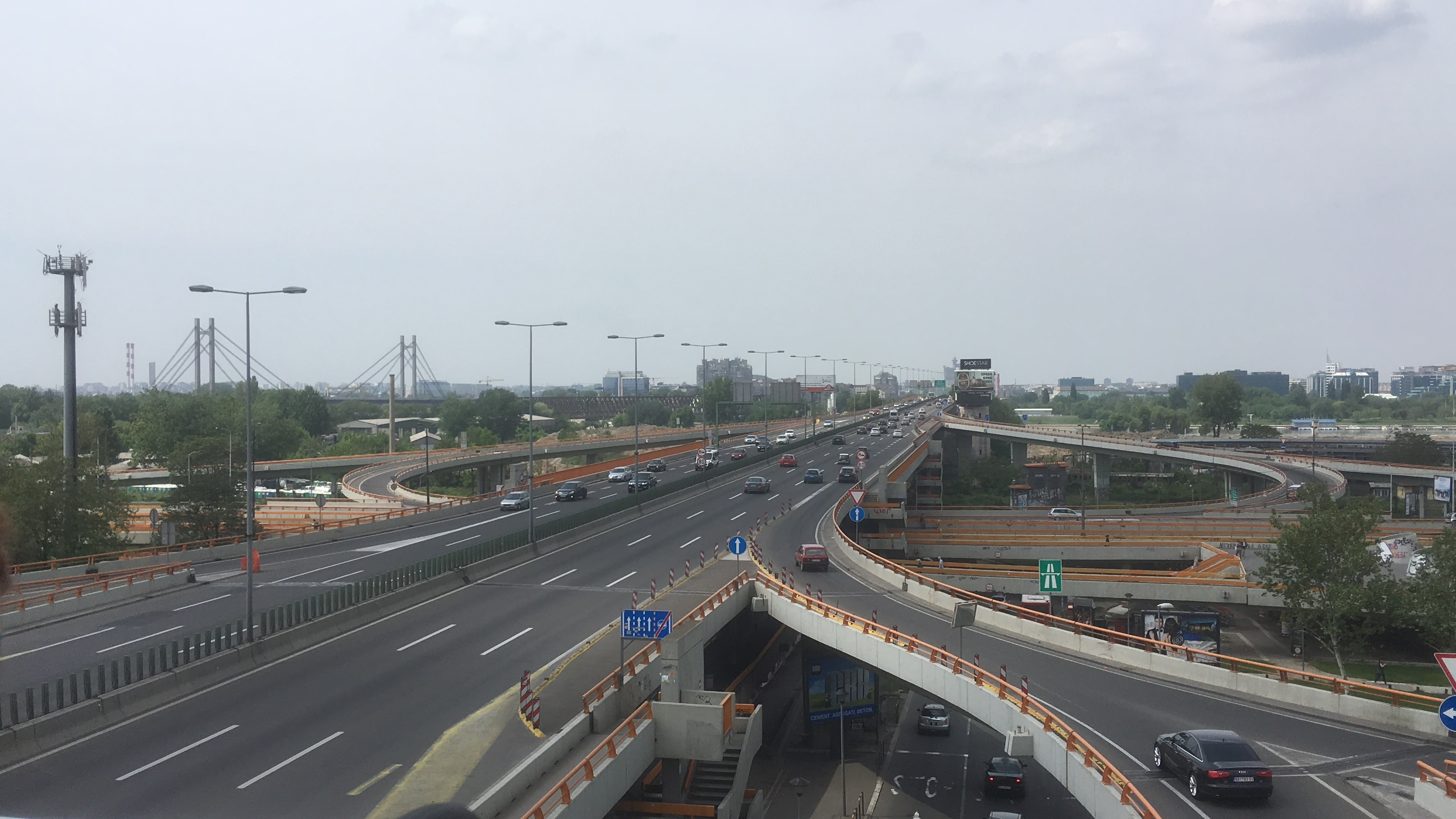 The E75 (A3) highway in Belgrade.